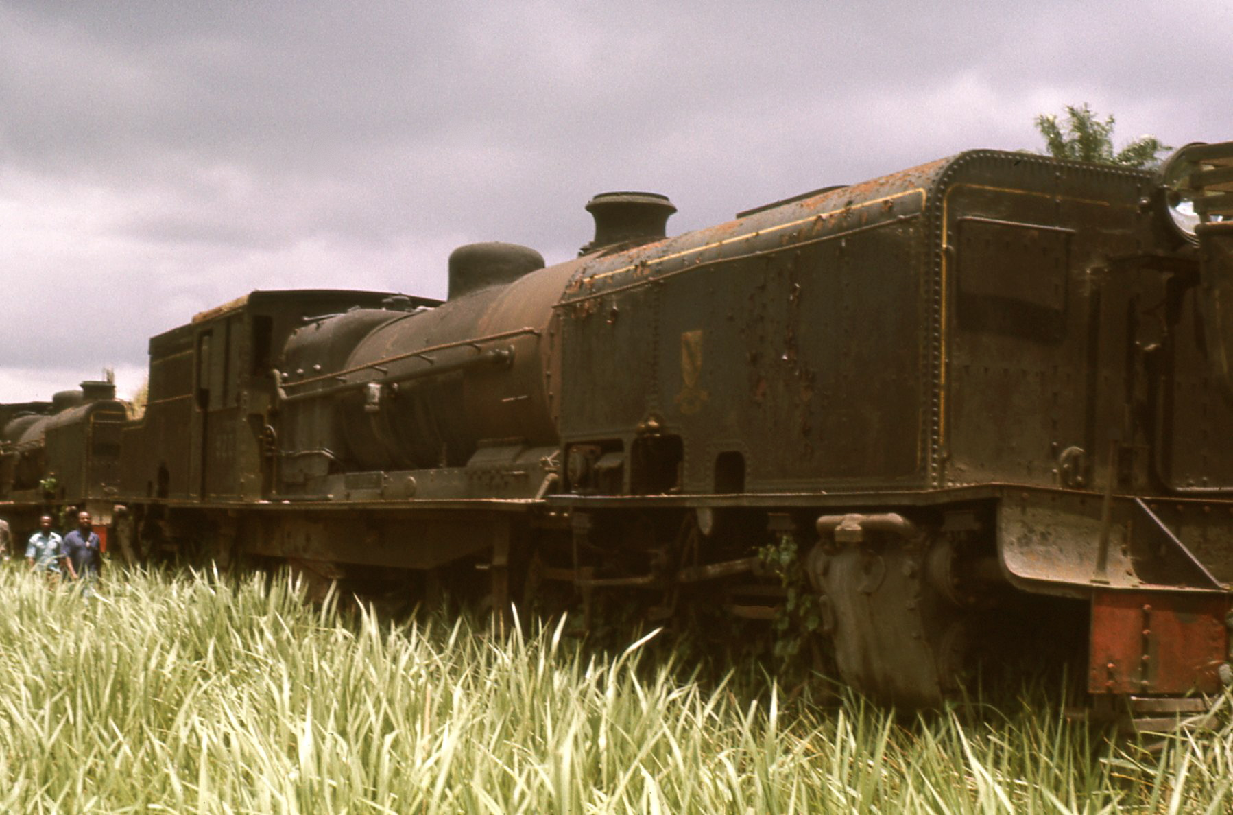 Nigerian Beyer-Garratt loco dumped at Lagos, 1974